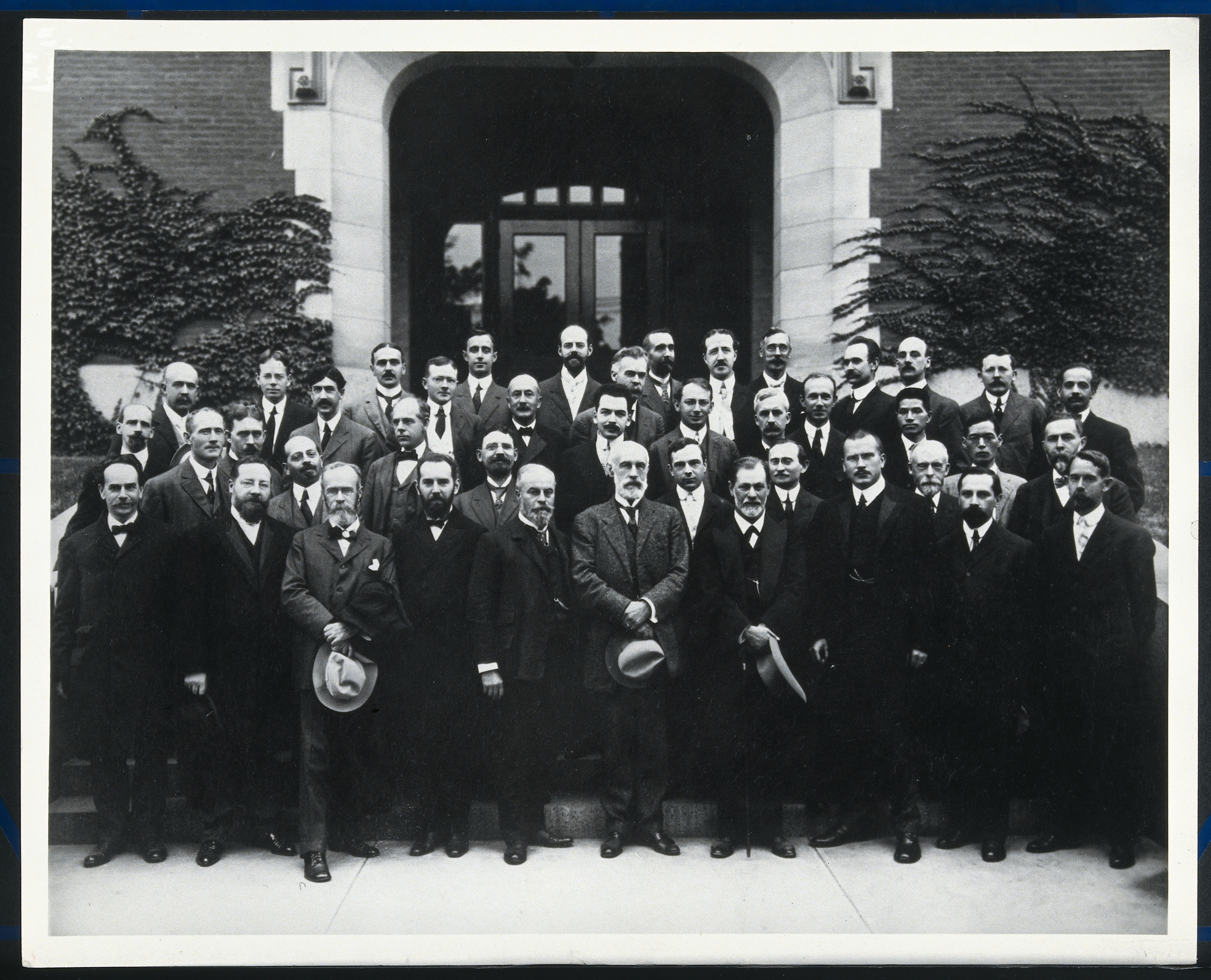 Psychoanalysts including Freud. Photograph. Iconographic Collections Keywords: portrait photographs Beginning with first row, left to right: Franz Boas, E. B. Titchener, William James, William Stern, Leo Burgerstein, G. Stanley Hall, Sigmund Freud, Carl G. Jung, Adolf Meyer, H. S. Jennings. Second row: C. E. Seashore, Joseph Jastrow, J. McK. Cattell, E. F. Buchner, E. Katzenellenbogen, Ernest Jones, A. A. Brill, Wm. H. Burnham, A. F. Chamberlain. Third row: Albert Schinz, J. A. Magni, B. T. Baldwin, F. Lyman Wells, G. M. Forbes, E. A. Kirkpatrick, Sándor Ferenczi, E. C. Sanford, J. P. Porter, Sakyo Kanda, Hikoso Kaksie. Fourth row: G. E. Dawson, S. P. Hayes, E. B. Holt, C. S. Berry, G. M. Whipple, Frank Drew, J. W. A. Young, L. N. Wilson, K. J. Karlson, H. H. Goddard, H. I. Klopp, S. C. Fuller.